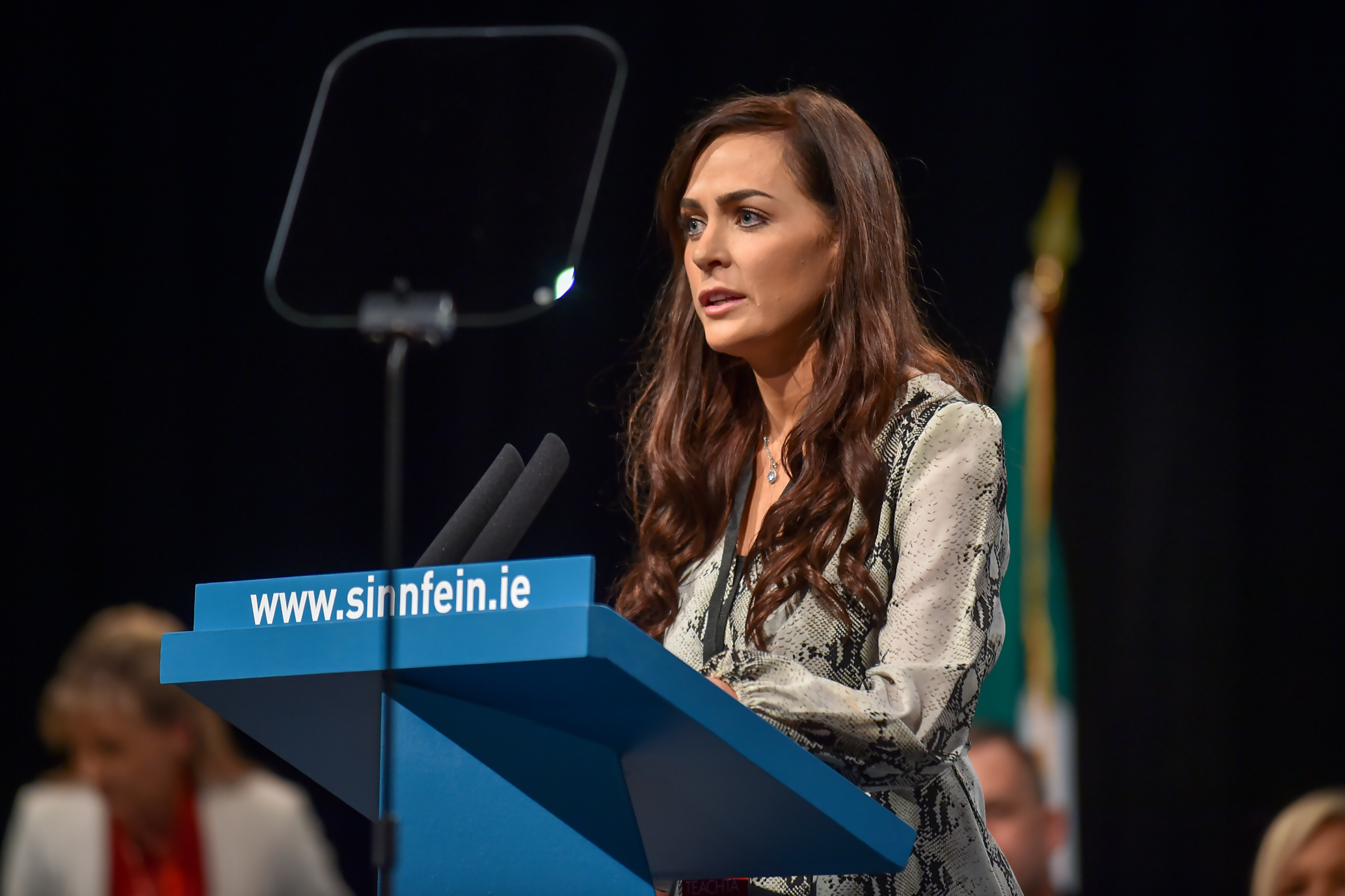 Órfhlaith Begley, Sinn Féin politician